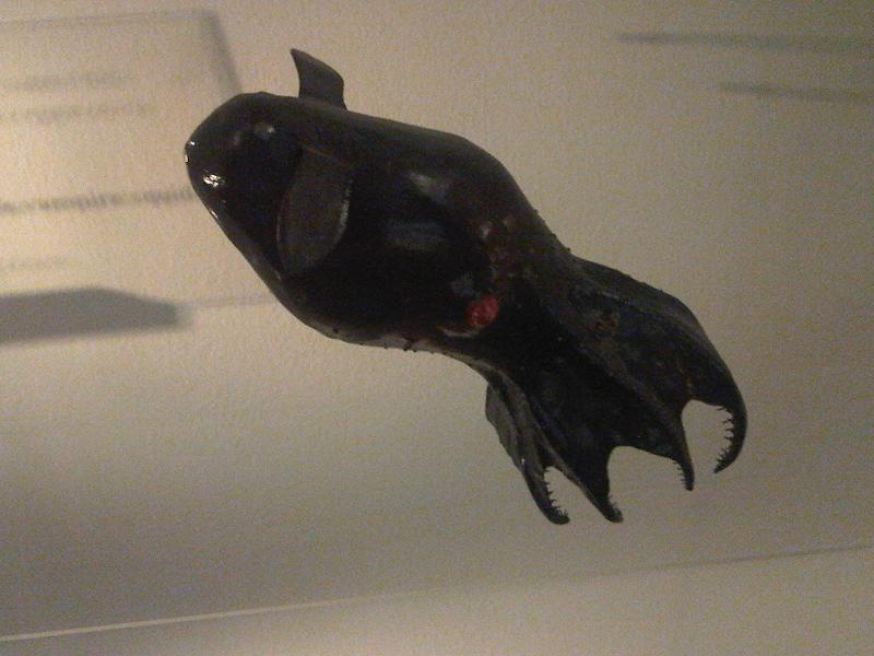 Vampire squid (Vampyroteuthis infernalis) model at the Natural History Museum in London, UK.